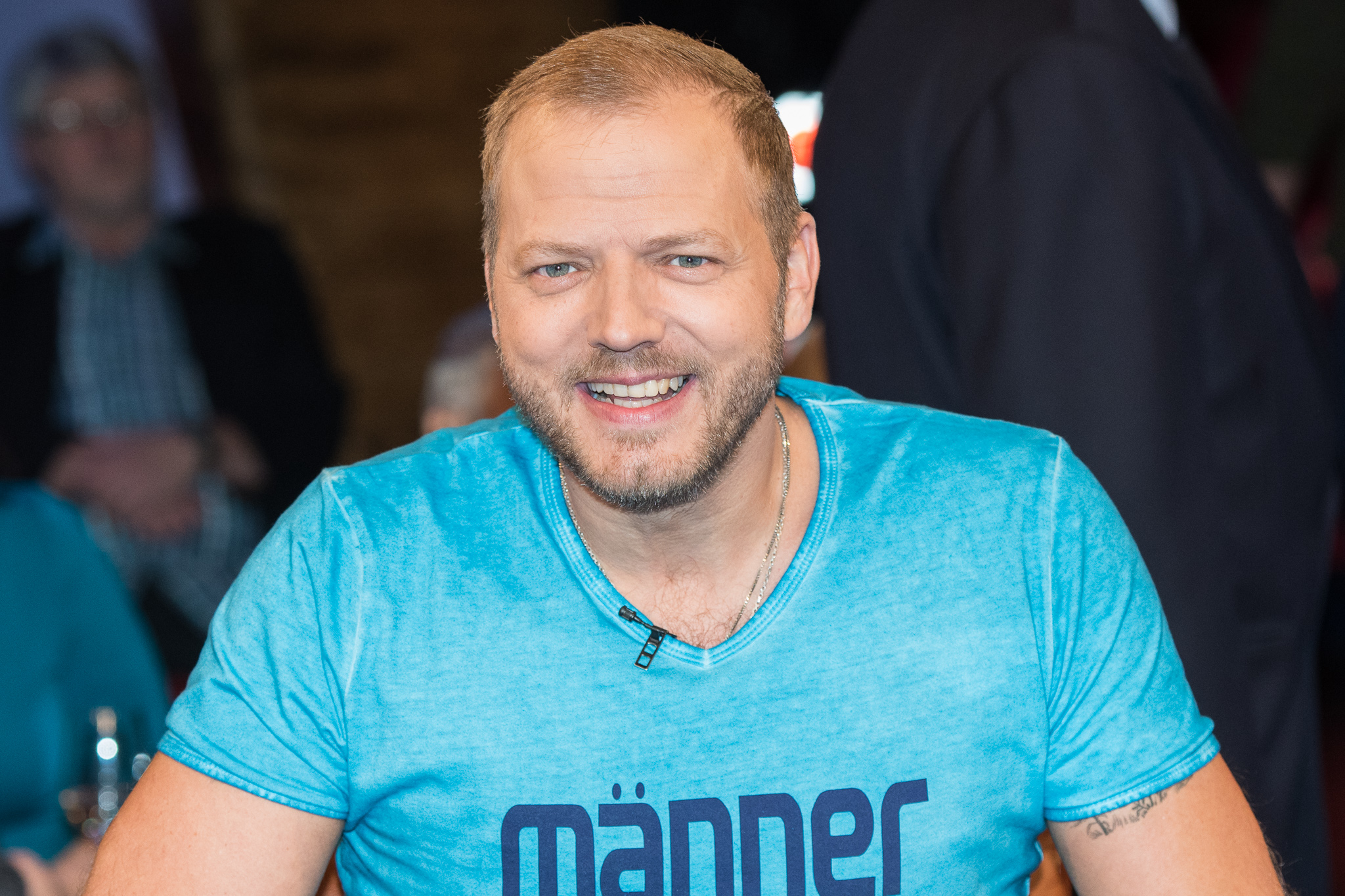 Live on tape,Mario Barth,NDR Talk Show